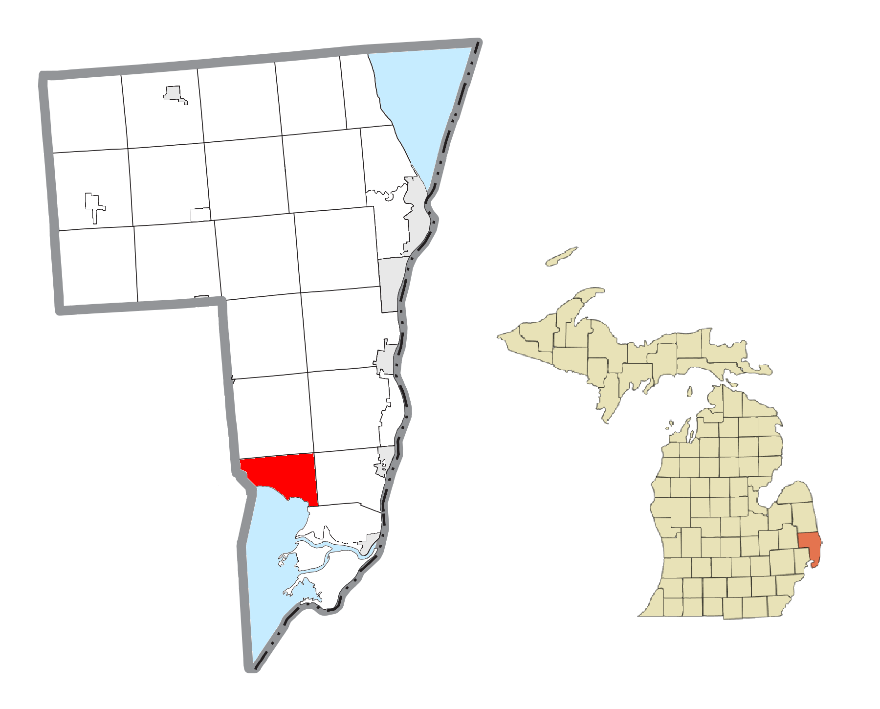 Ira Township, MI